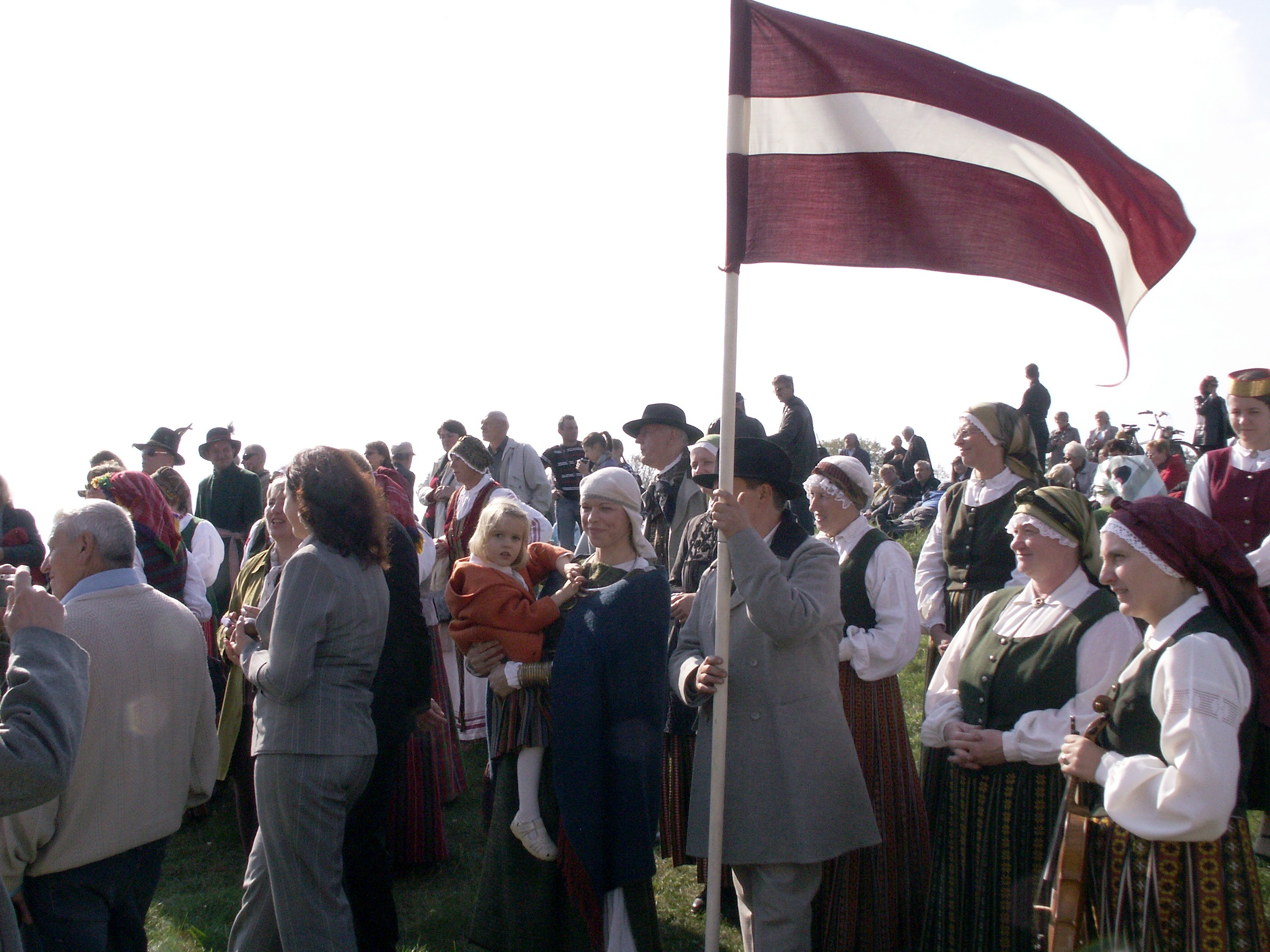 Baltic Unity Day, Salduvė, Šiauliai, LietuvaLietuvių: Baltų vienybės diena, Salduvė, Šiauliai, Lietuva